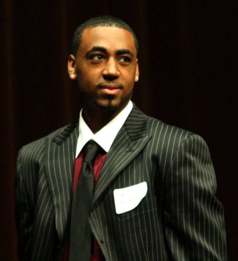 AJ Abrams at the Longhorn Basketball Banquet